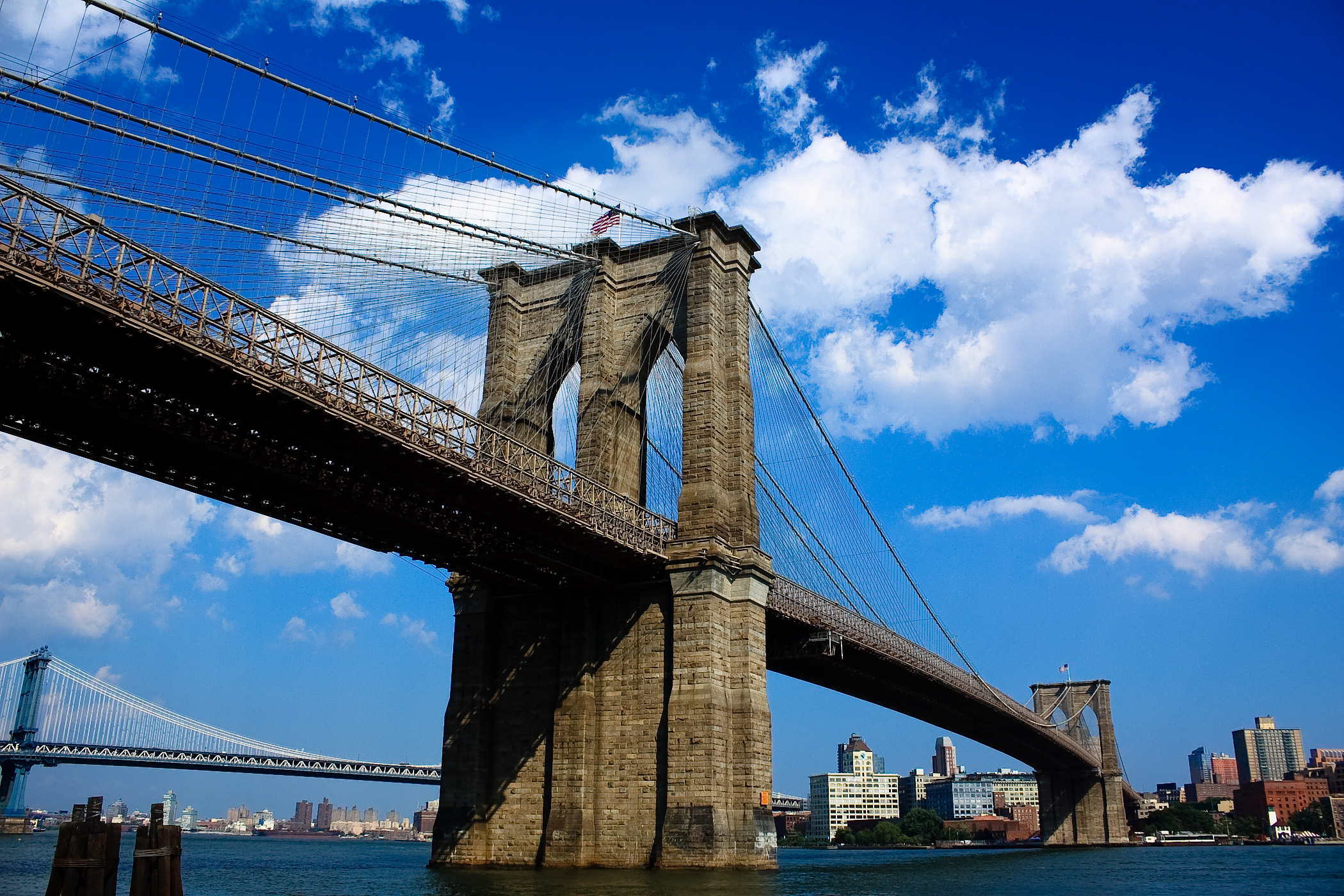 The view of Brooklyn Bridge from Manhattan